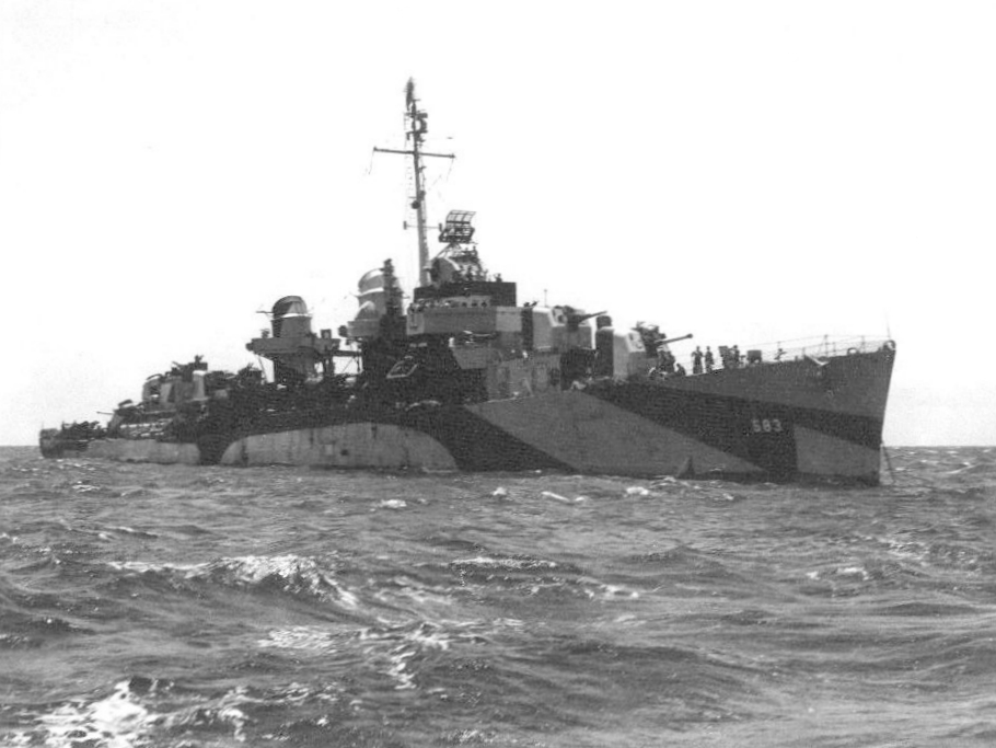 The U.S. Navy destroyer USS Hall (DD-583) at anchor. She is painted in camouflage Measure 32, Design 1D.